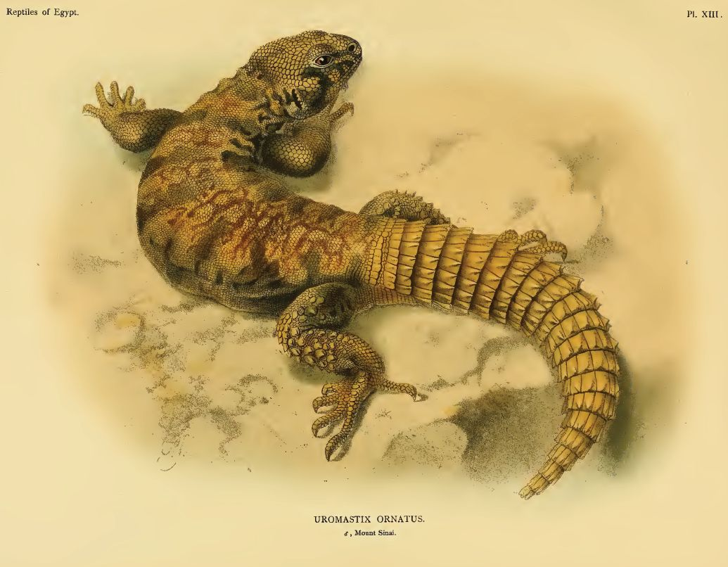 Drawing of Uromastyx acanthinura